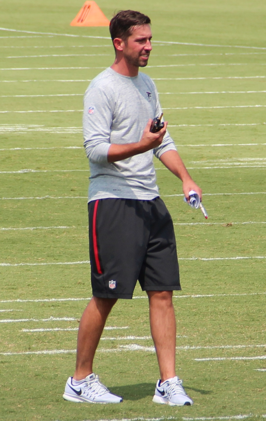 Kyle Shanahan at Falcons training camp, 2016